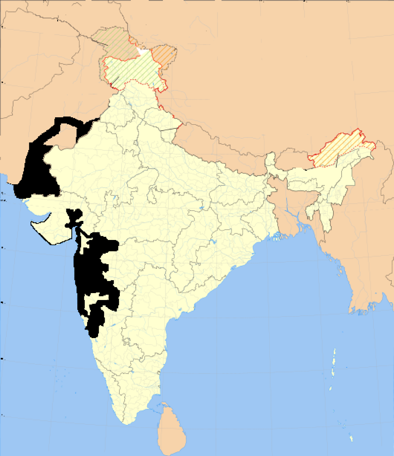 Bombay Presidency (early 20th century). Extremely inaccurate currently. Expected to improve as time progresses